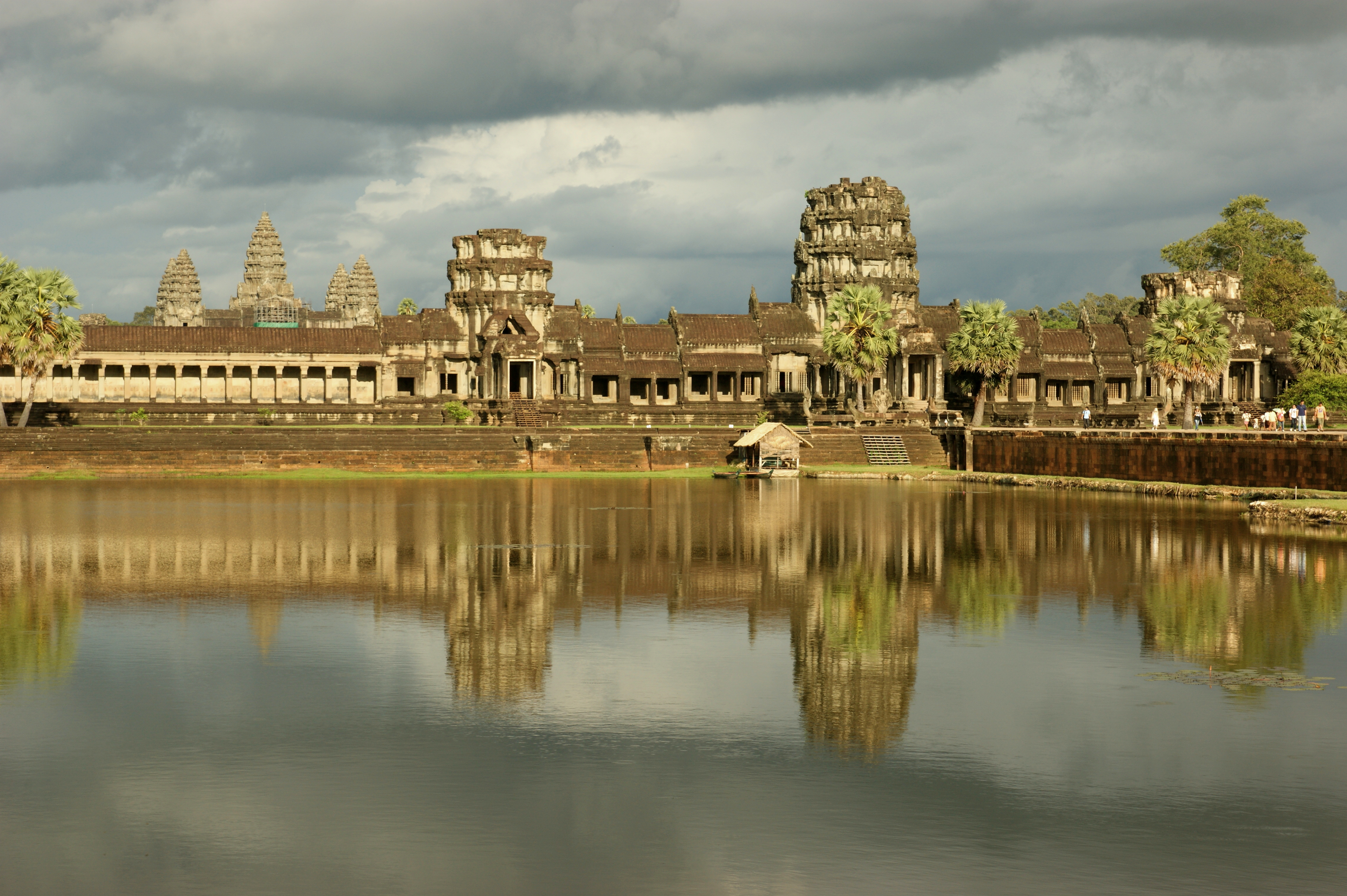 View of Angkor Wat temple in Siem Reap, Cambodia.